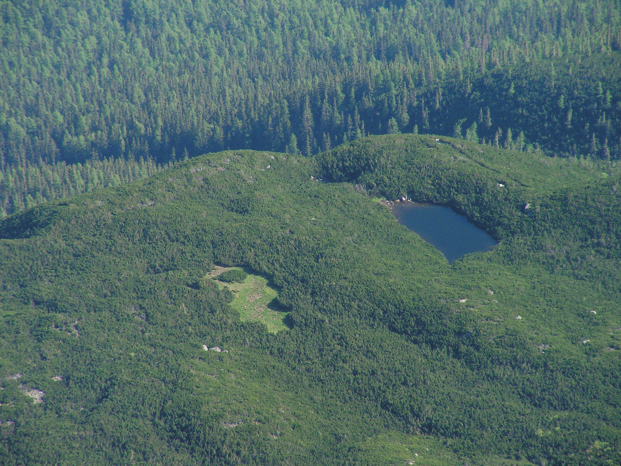 Slavkovské pliesko, view from Slavkovský štít.